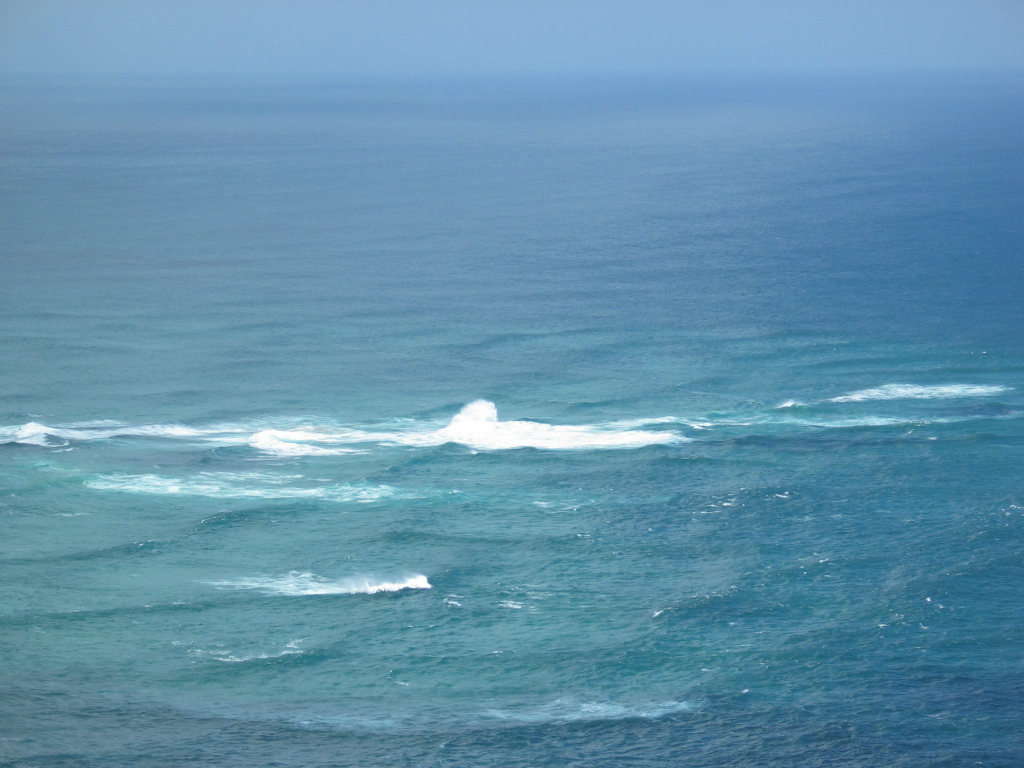 Waterfront: where 2 watermasses meet: Cape Reinga/New Zealand: Left the Tasman Sea, right the South Pacific Ocean